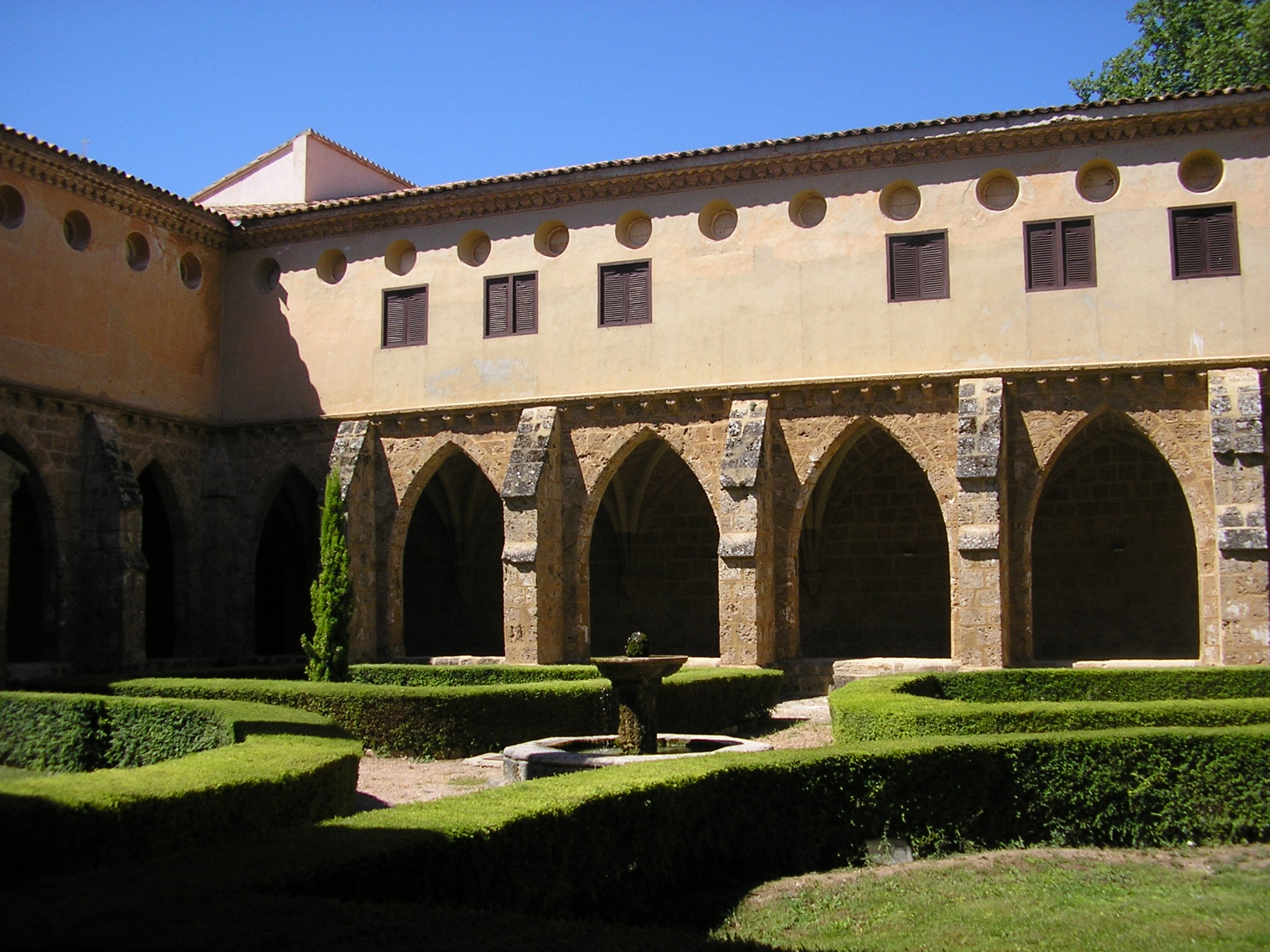 Cloister of the Monasterio de Piedra in Aragon, Spain. Picture taken by User:Demilune